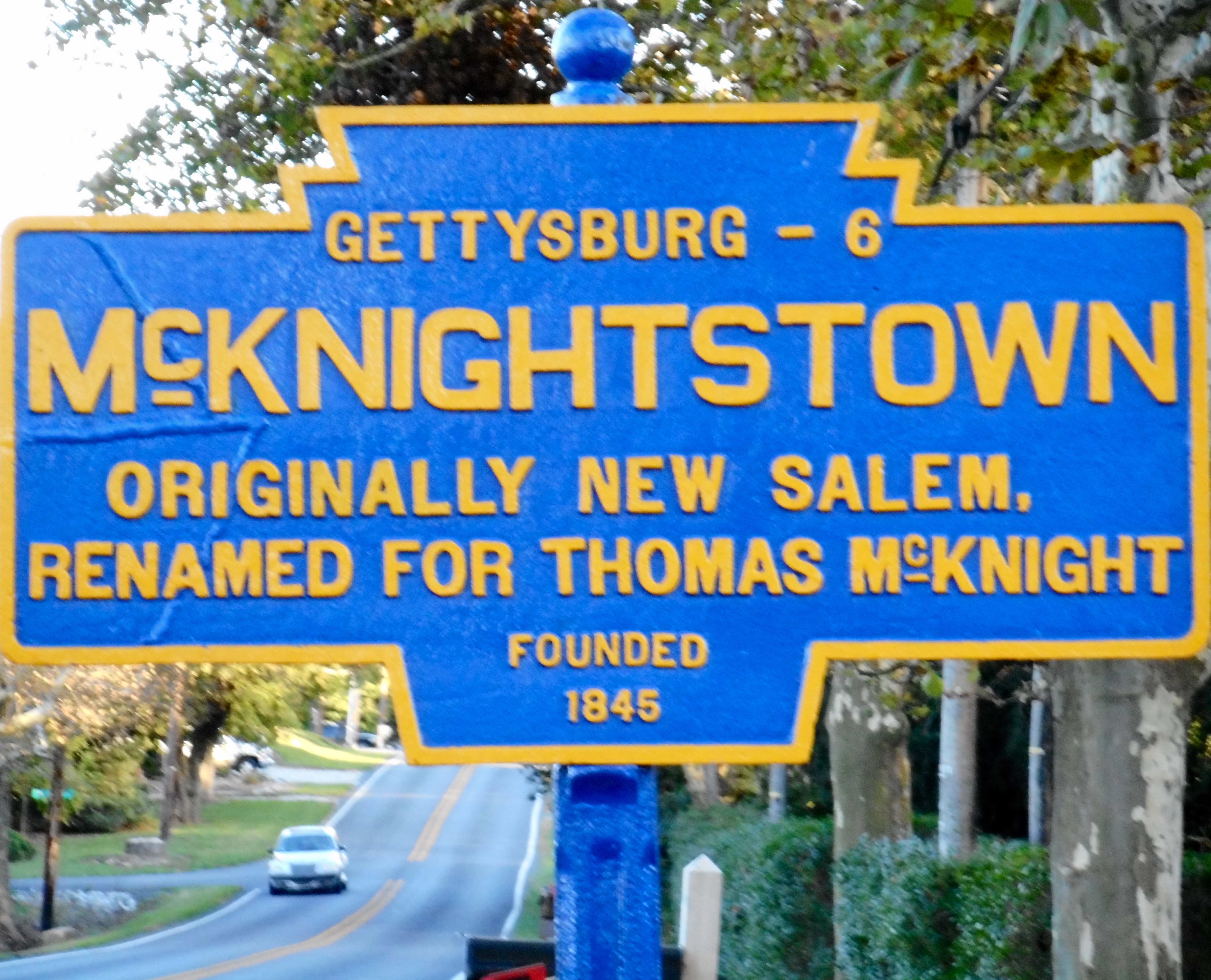 Keystone Marker for McKnightstown, Adams County, Pennsylvania looking east on old Lincoln Highway toward Gettysburg